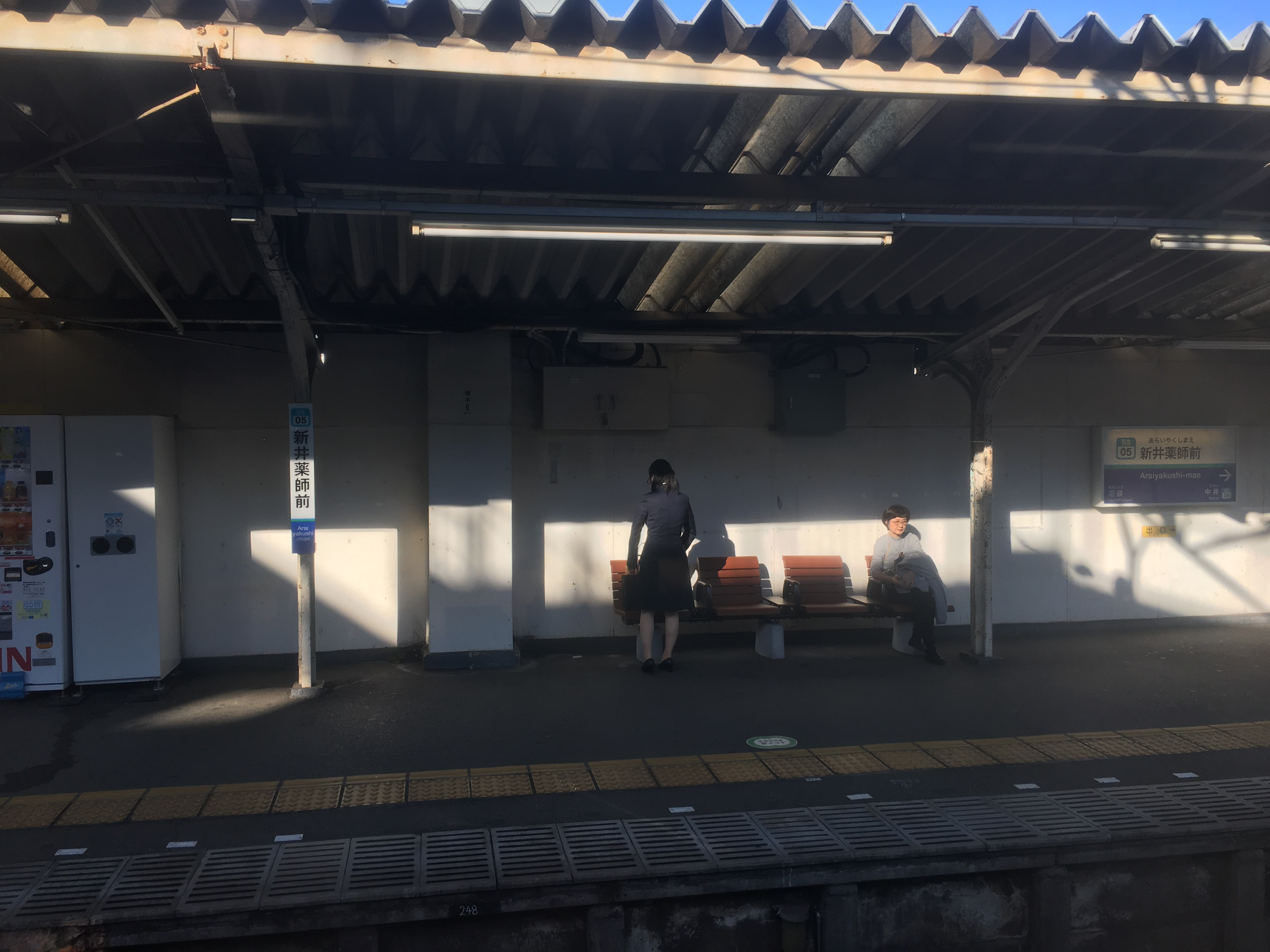 新井薬師前駅のホーム (Araiyakushi-mae Station platform)